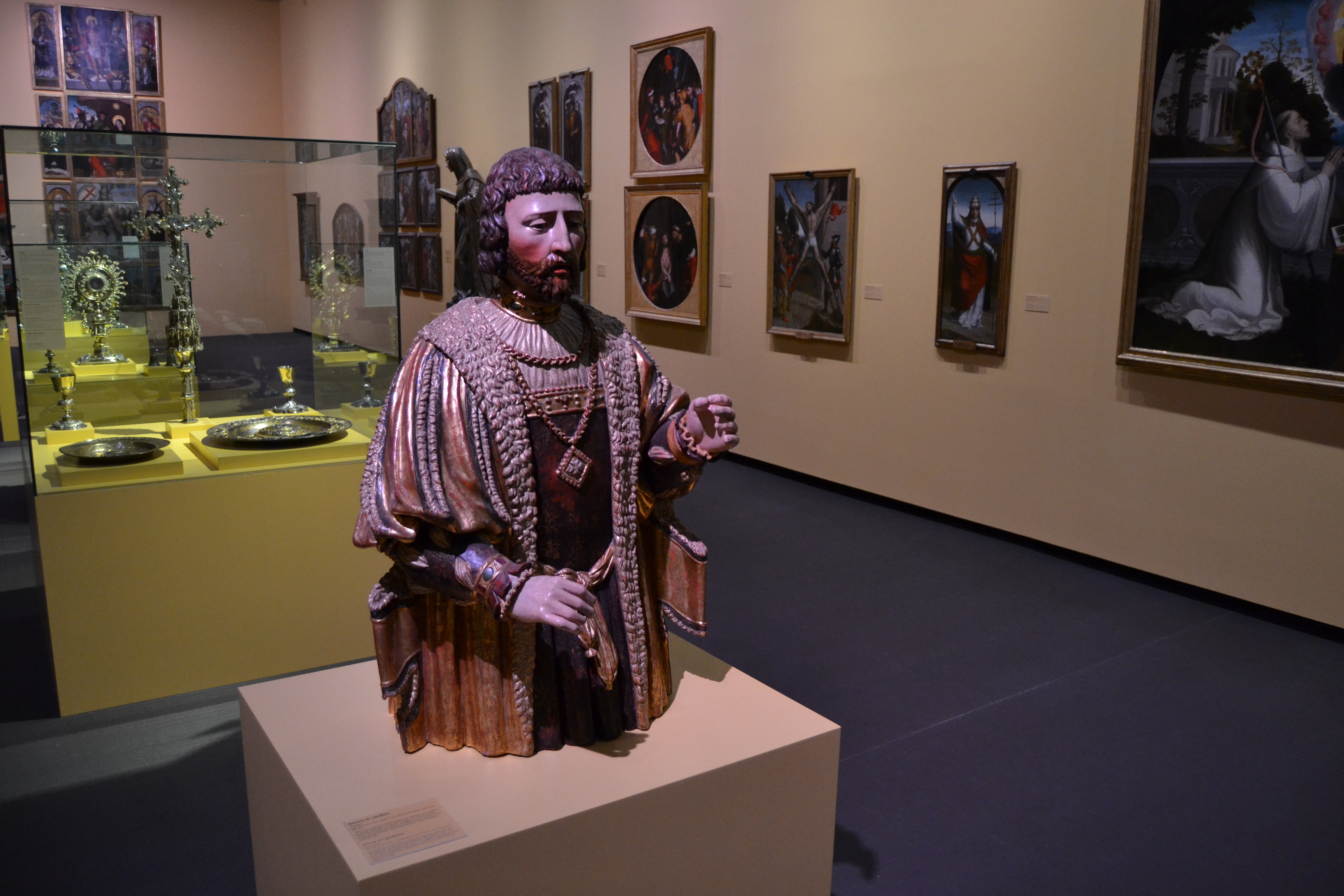 Museo de Santa Cruz, Toledo, Spain